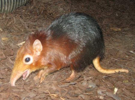 Black and Rufus Giant Elephant Shrew.